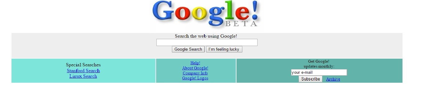 The main page of Google on 1998.